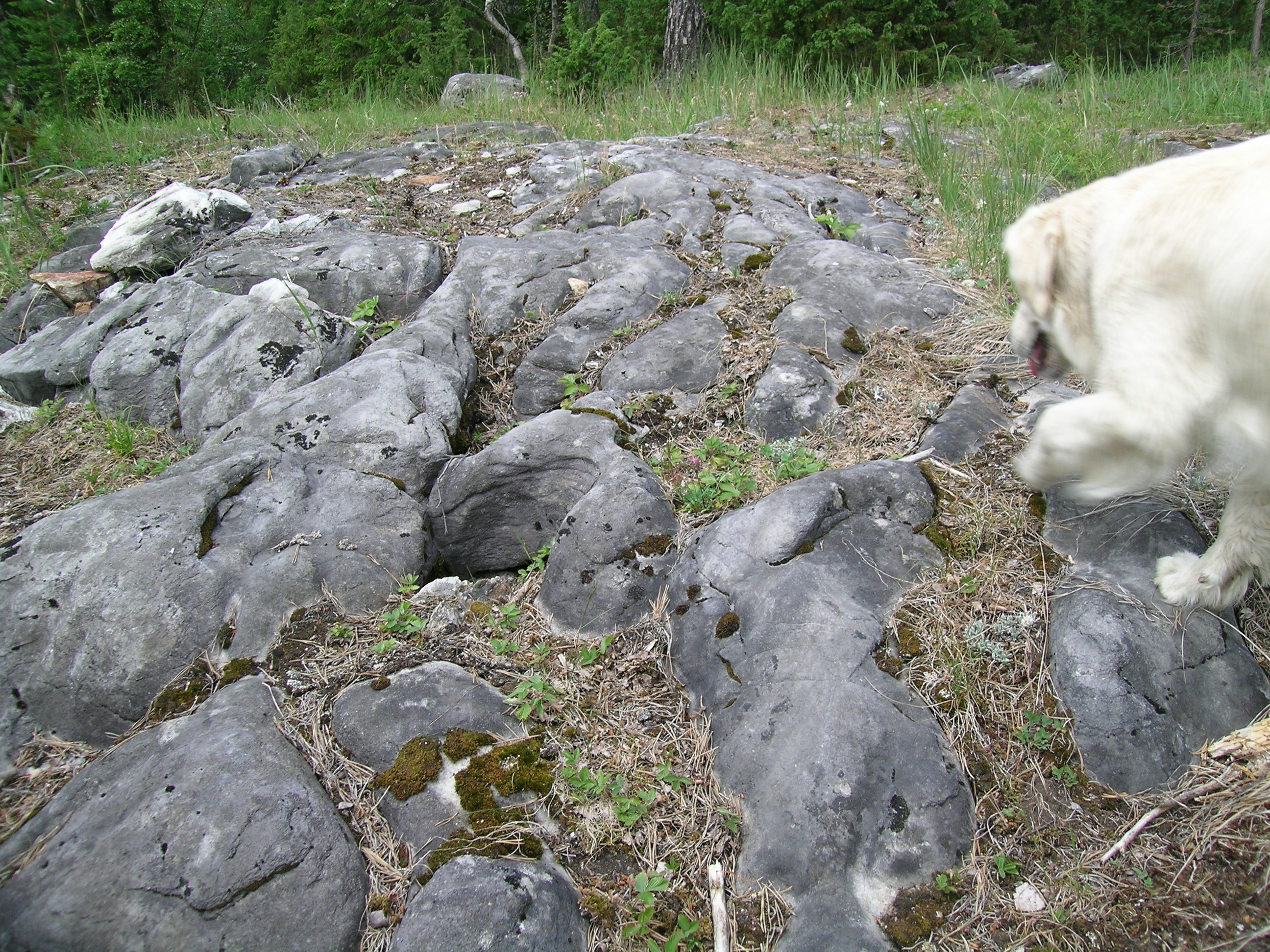 Chemical weathering in limestone. Kongsberg, Norway.